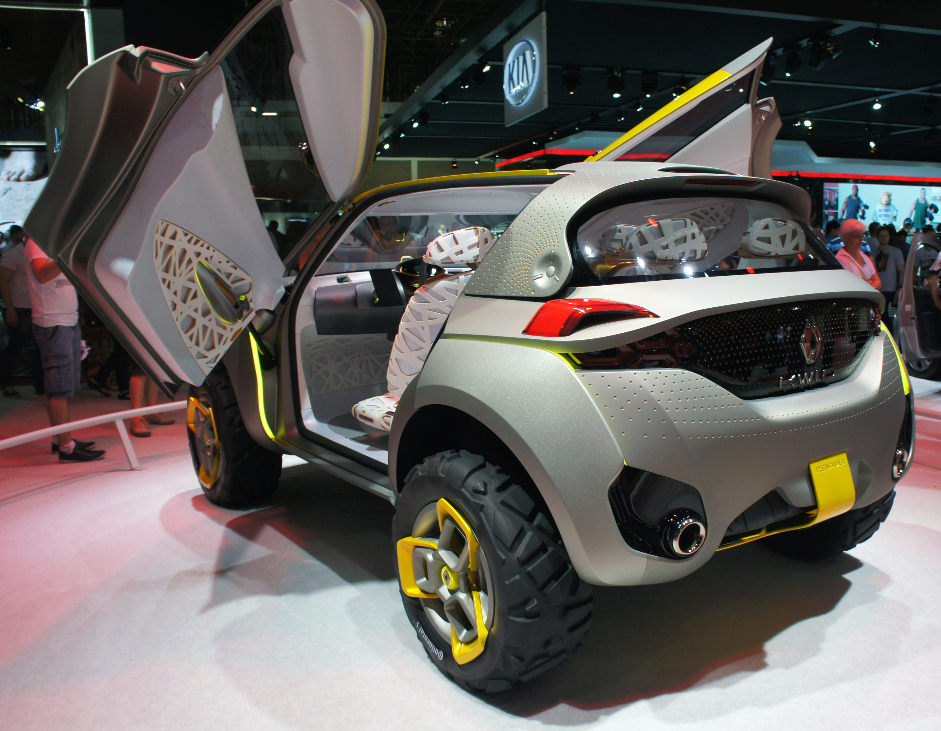 Renault KWLD concept exhibited at the Salão Internacional do Automóvel 2014 São Paulo, Brazil.